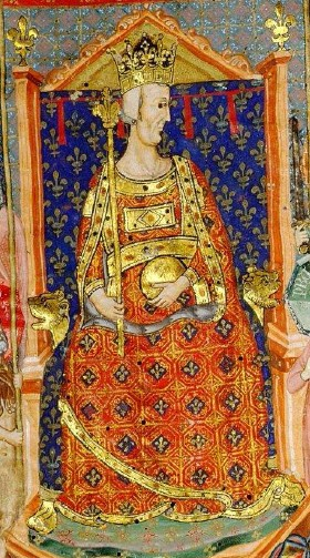 Robert of Naples